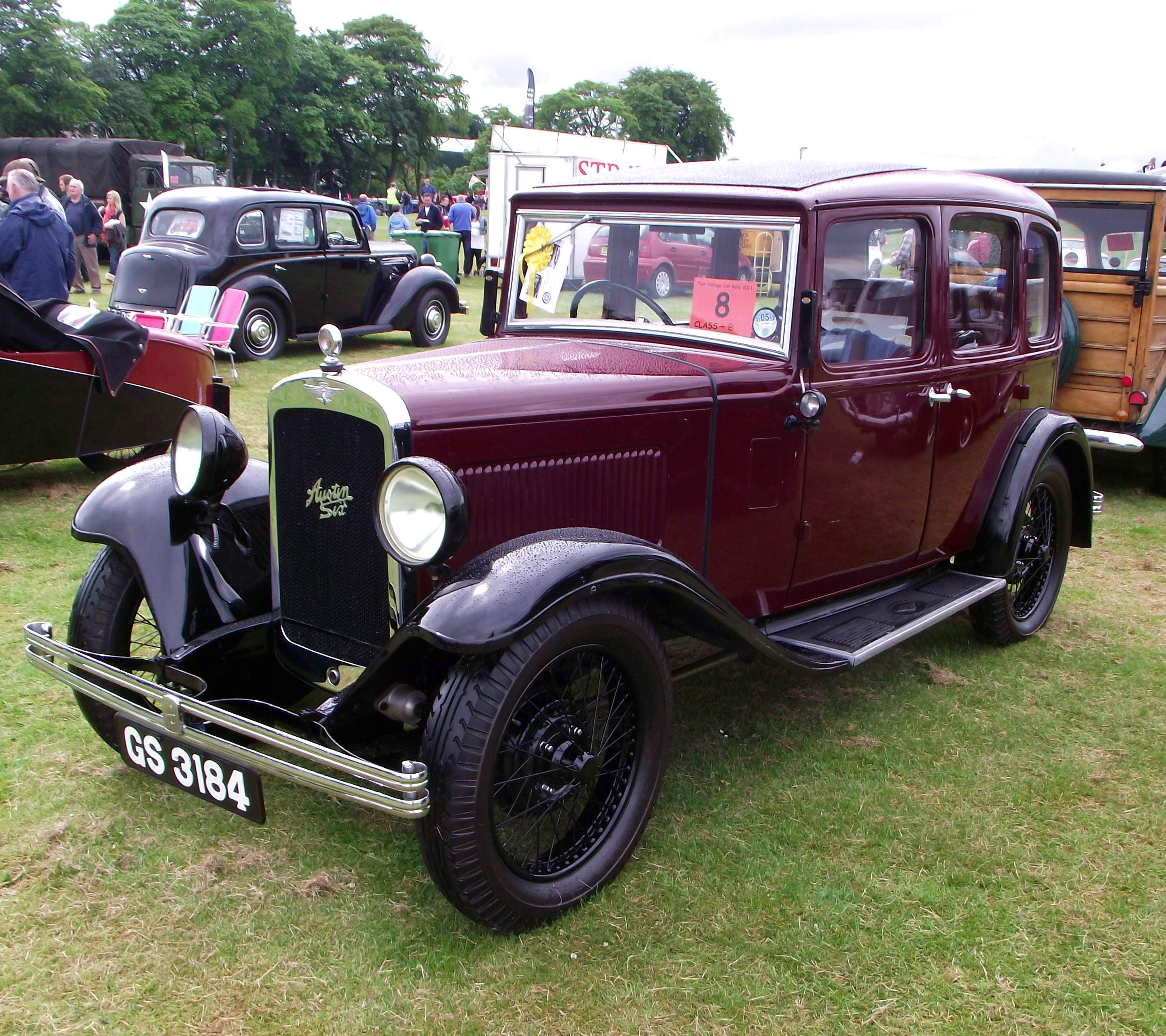 Austin Light Twelve-Six 1.7 litre first registered 10 May 1932 One of the many magnificent exhibited vehicles which took my fancy at Tain Rally 2011 (4th Vintage Historic & Classic Car Rally) held at The Links, Tain, Ross-shire on Sunday 19/6/11. The rain did not appear to put off exhibitors or spectators/visitors.